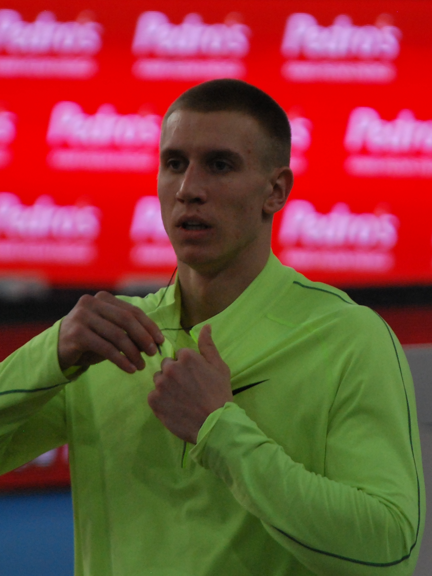 Pedros Cup 2015 Łódź, Piotr Lisek, pole vaulter from Poland